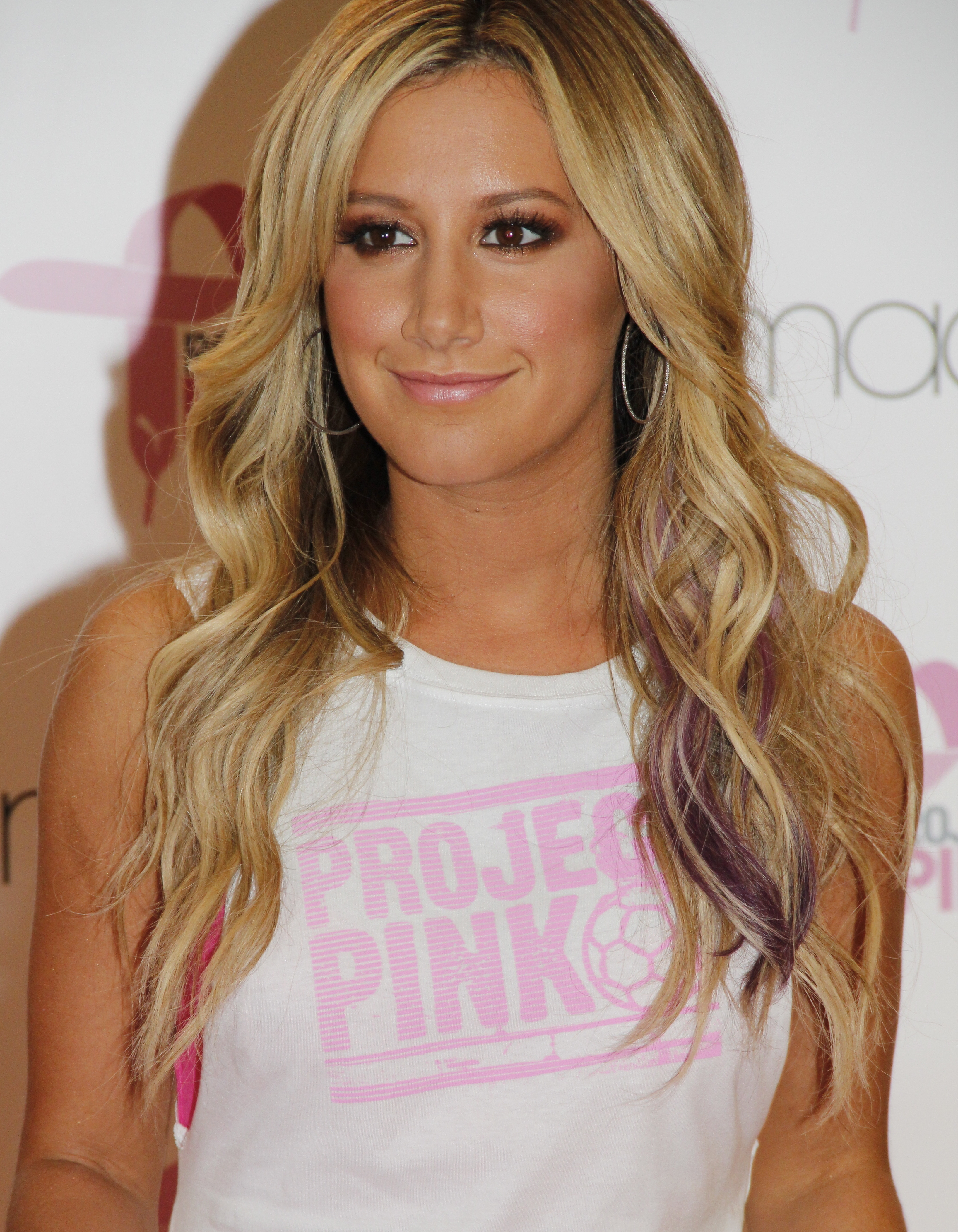 Ashley Tisdale at the Puma Project Pink, Macy*s Herald Square NYC in July 2012.